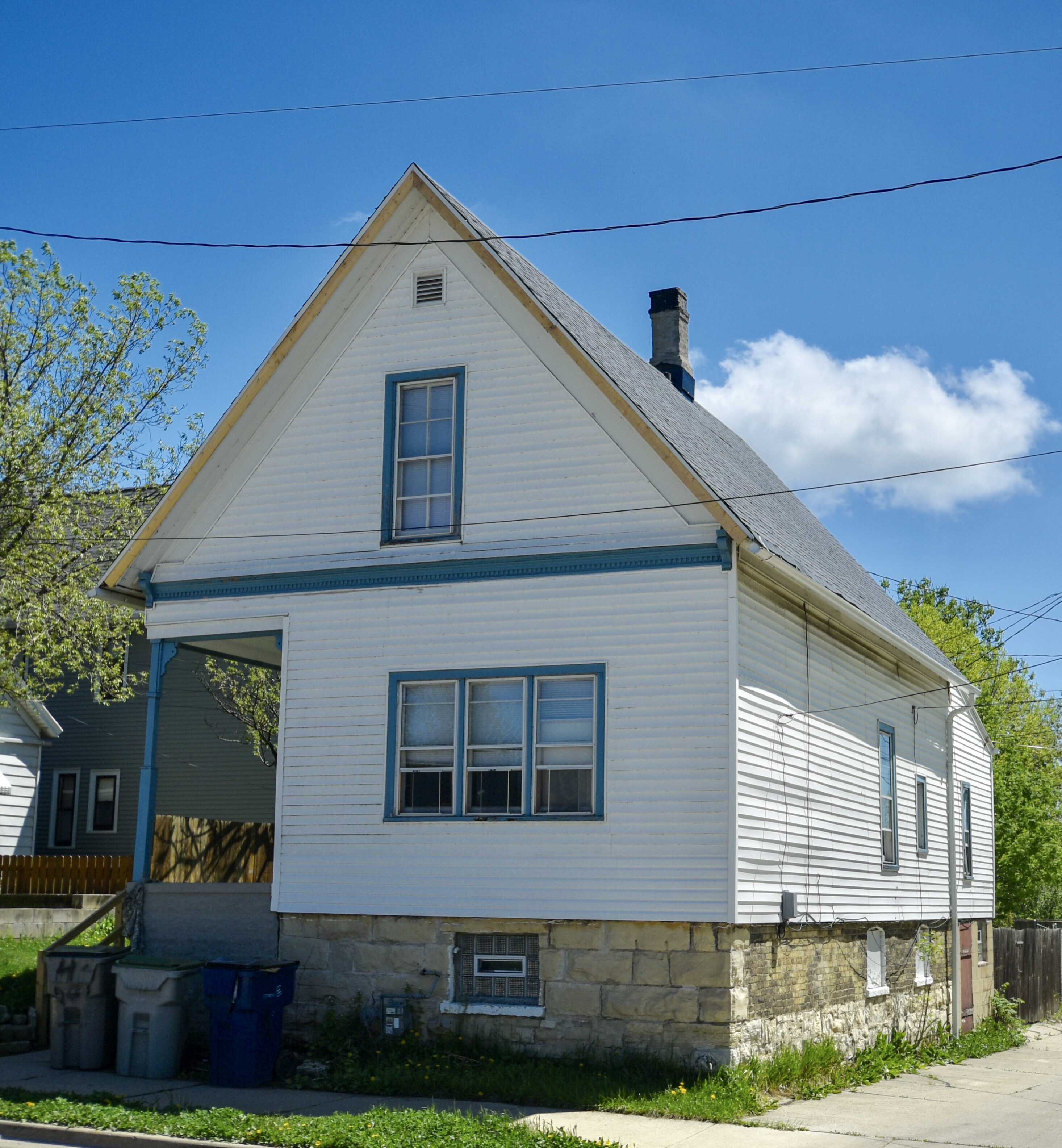 Lloyd A. Barbee House